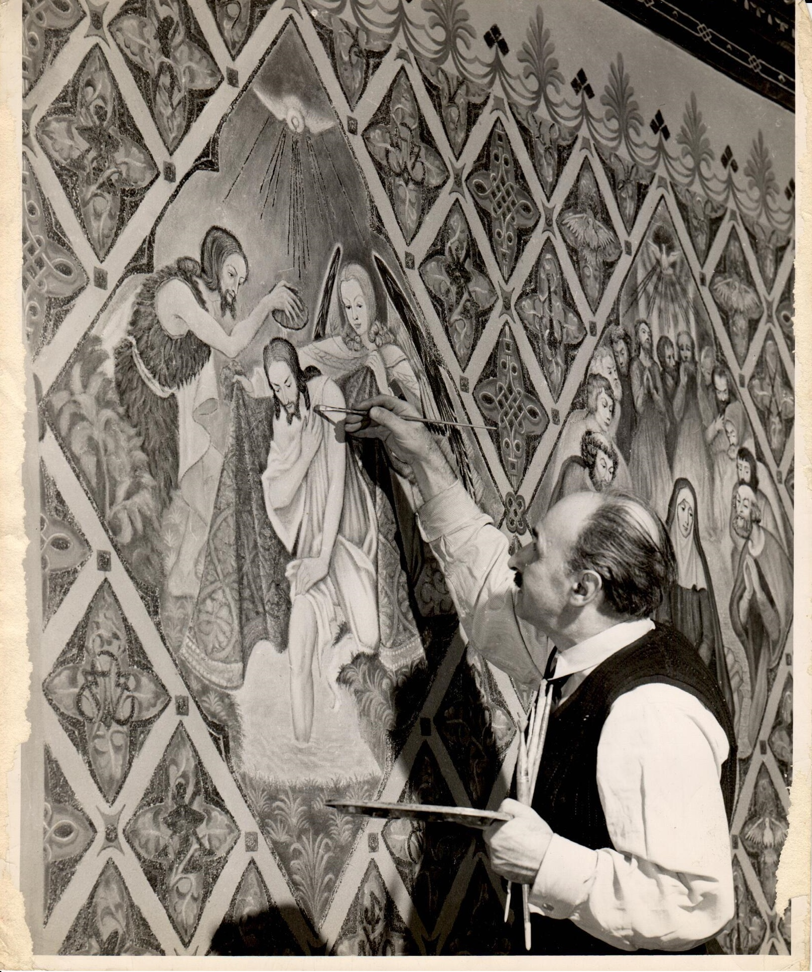 Stefan Kątski (Kontski) w trakcie tworzenia polichromii w kościele MBCz, Montreal 1952